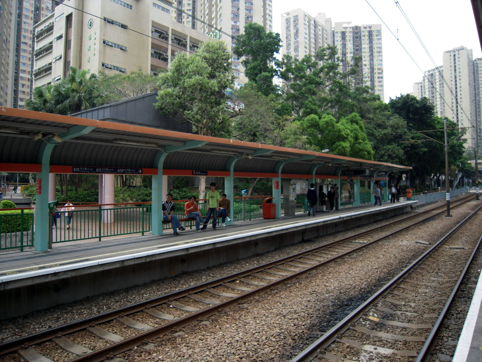 MTR Light Rail Ming Kum Stop, Hong Kong